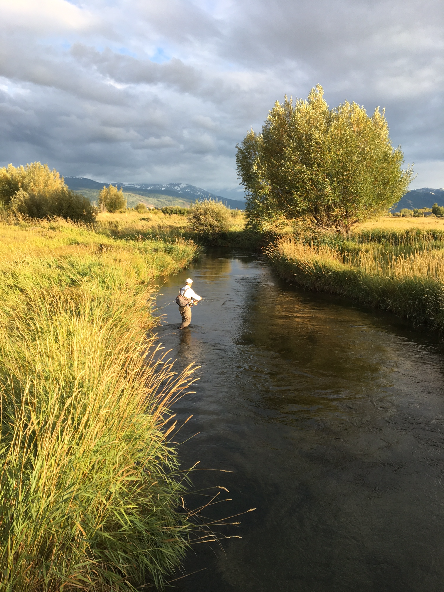 Flyfisherman (David Treinis) on Fox Creek, Teton River tributary in autumn 2017